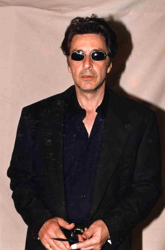 Al Pacino